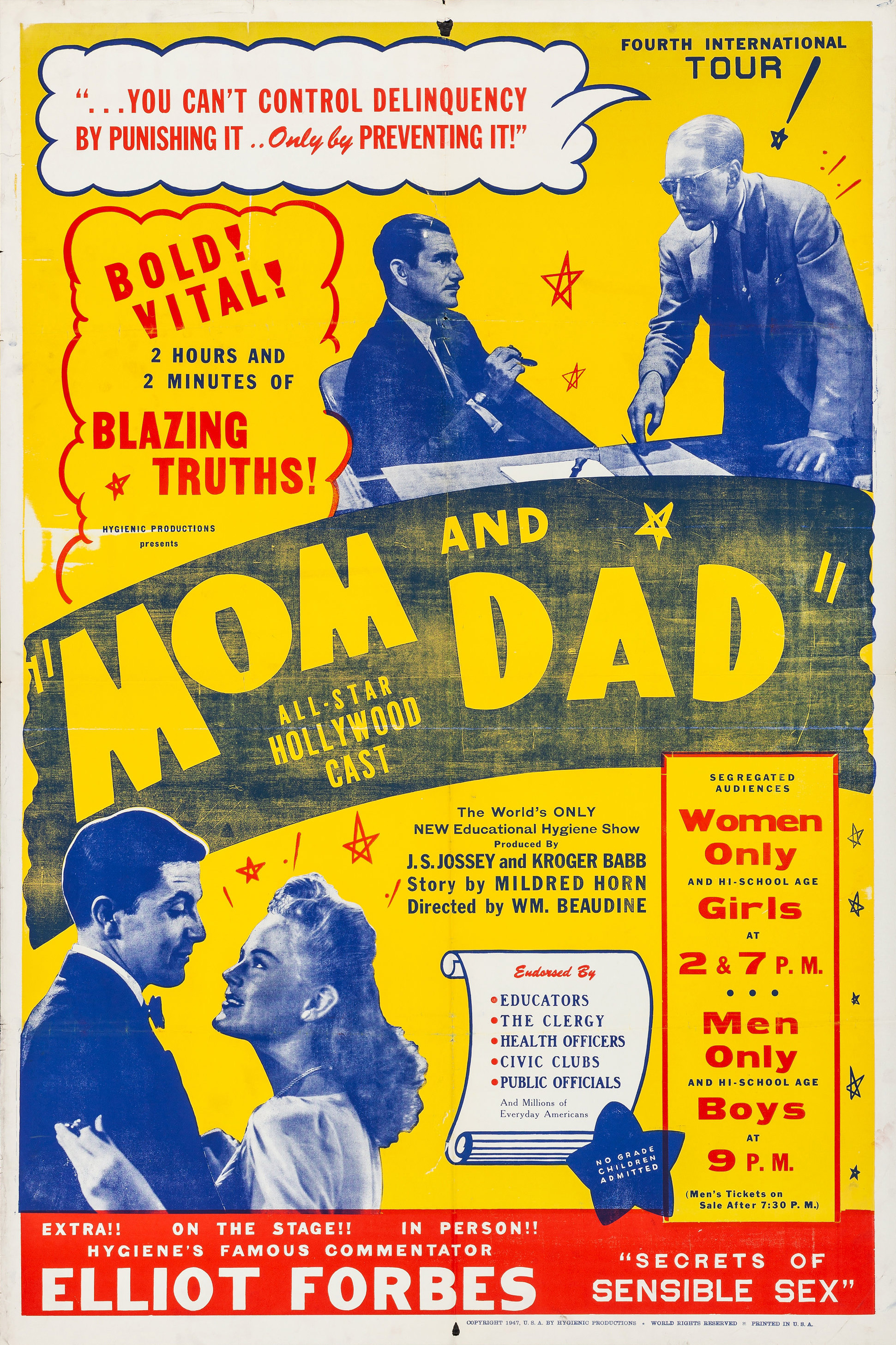 Poster dated 1947 promoting screenings of the 1945 exploitation film Mom and Dad.